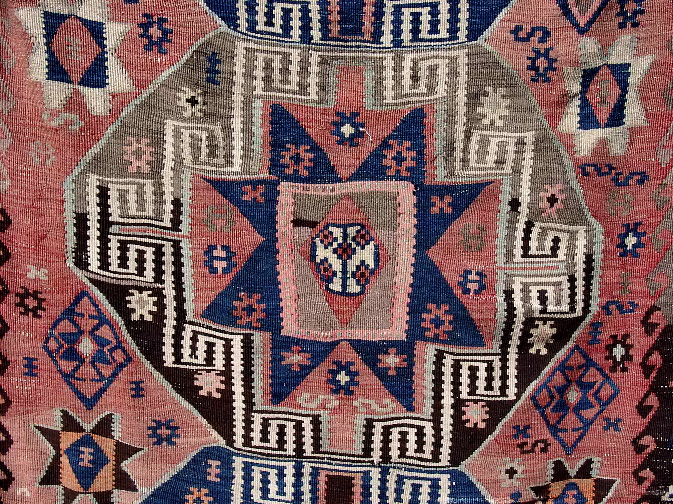 Turkish carpet